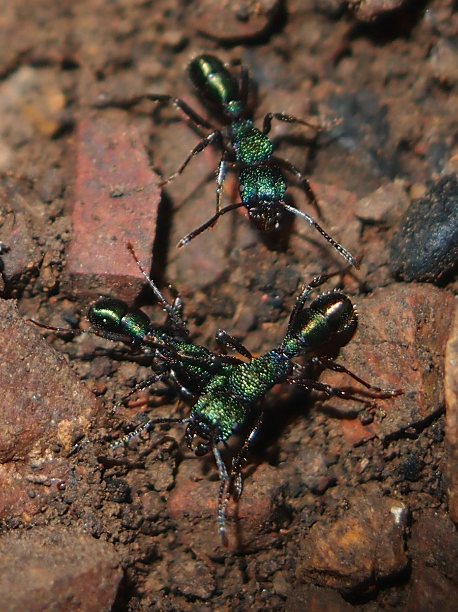 Rhytidoponera metallica ants